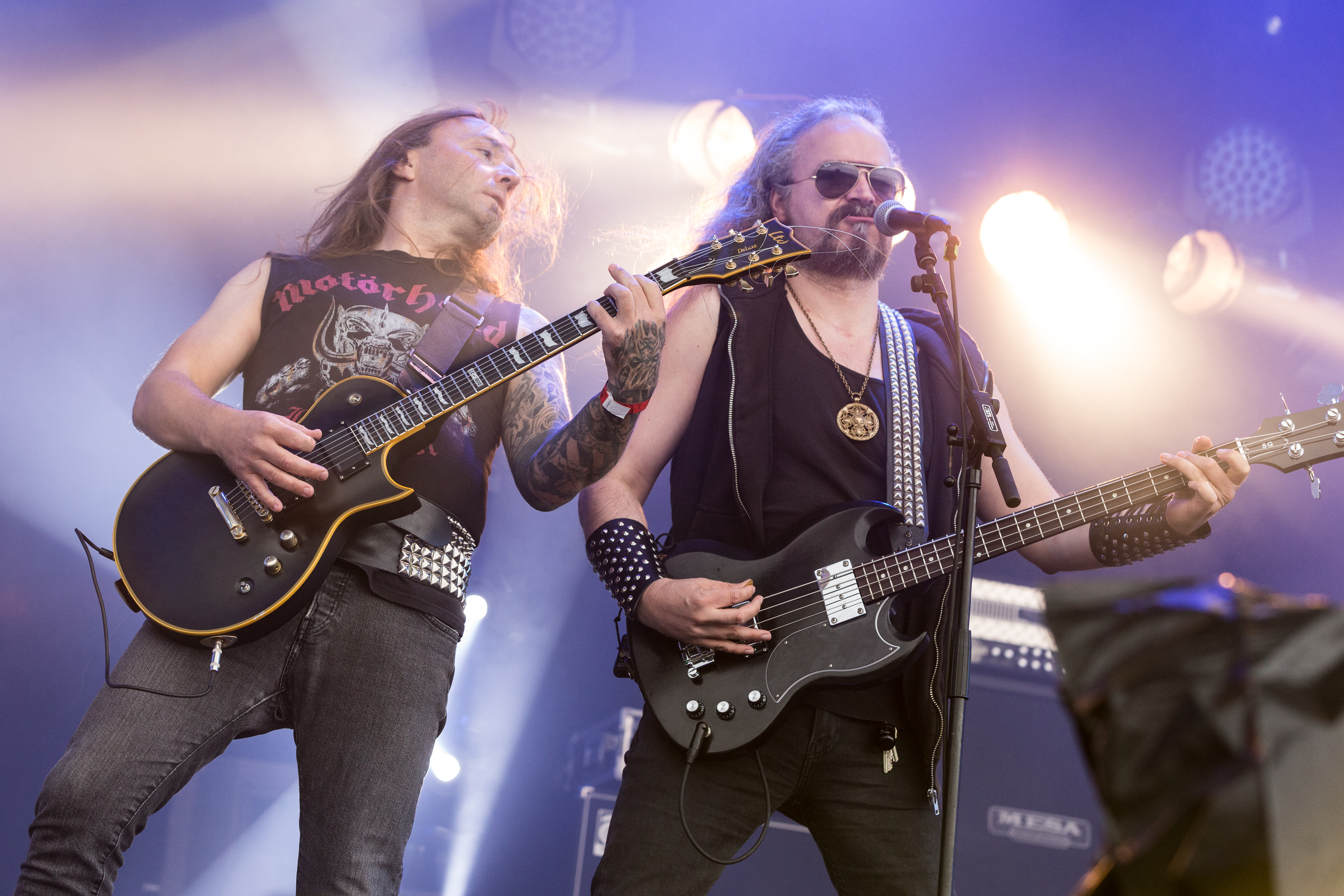 The Norwegian black/thrash metal band Aura Noir at the Party.San Metal Open Air 2017 in Obermehler-Schlotheim/Germany.